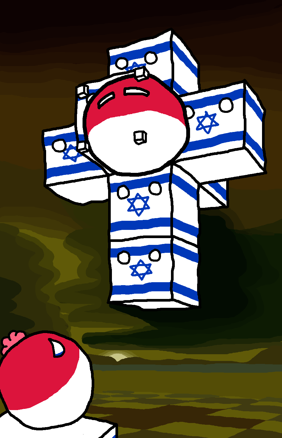 Polandball take on Salvador Dali's Crucifixion (Corpus Hypercubus)